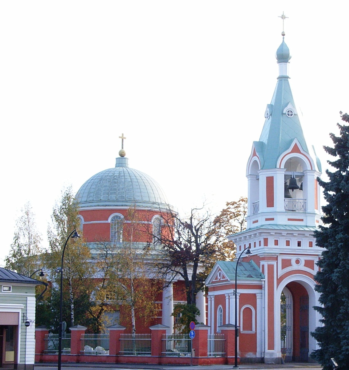 Orthodox church of St. Peter and Paul (1832–37) in Hamina, Finland